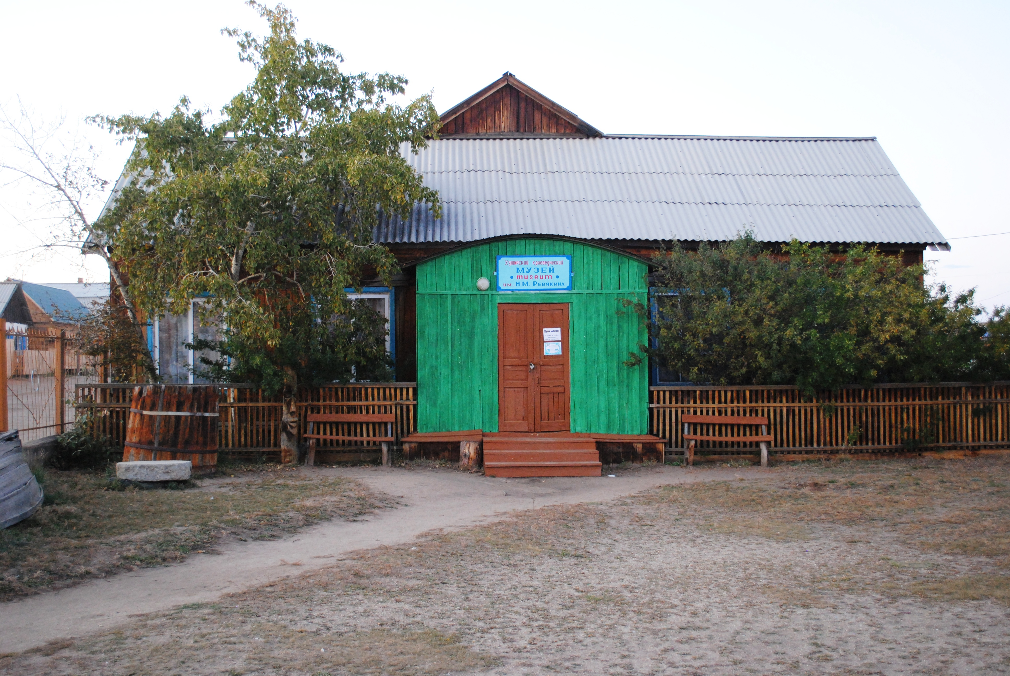 Olkhon